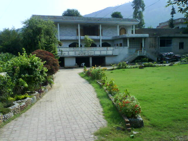 This is a house located in Barali, Pakistan, known as Rajgaan Villa. Picture taken by Kashif in 2008. Multilicensed GFDL and CC-BY 3.0 by User:786kashif.